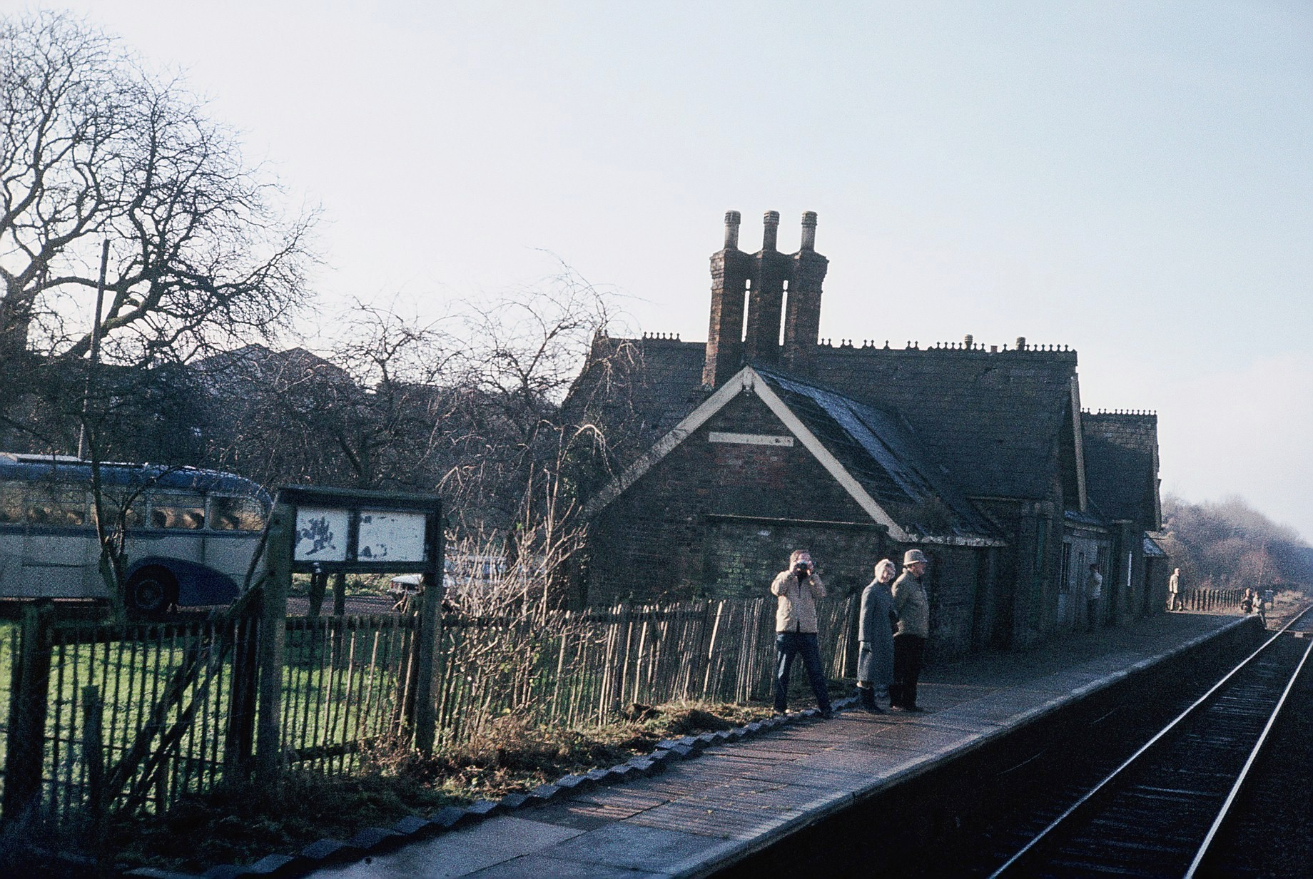 Original Winslow railway station as seen from a train.